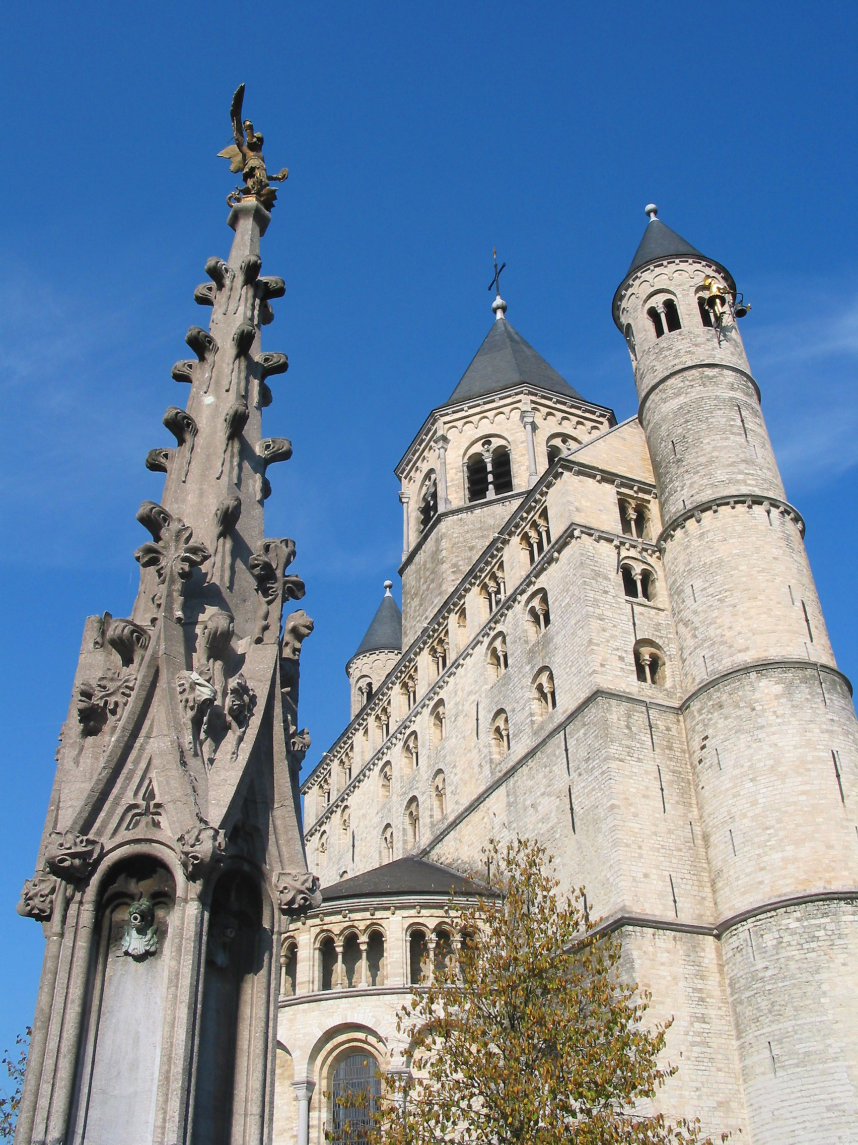 Nivelles (Belgium), the St. Gertrude Collegiate (XI/XIIIth century) and her restored fore-part (XXth century) - Pinnacle of the fountain du Perron replica 1922). Walon: Nivèle (Bèljike), li coléjiale Sint Djèrtrûde (XI/XIIIin.me sièkes èt si avant-cwârps rimètu a noû au (XXin.me sièke) – Copète è tayée pîre dol rèplike dol fontin.ne do Pèron (1922).